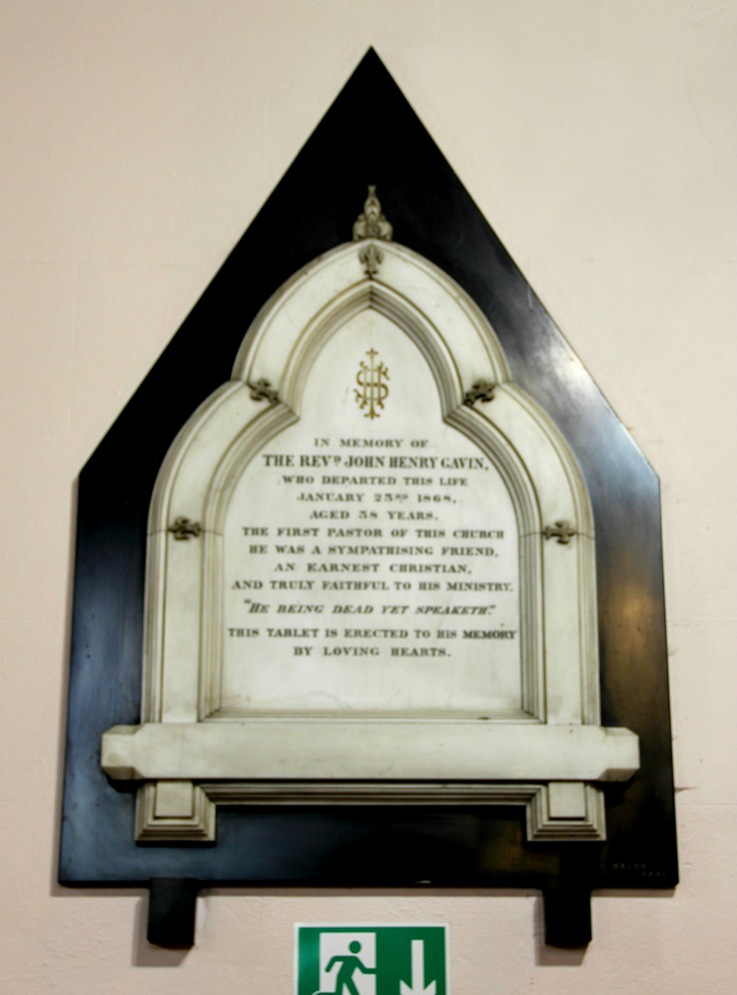 West Park United Reformed Church, Harrogate, England. The building was designed as West Park Congregational Church by Lockwood and Mawson, and completed in 1861-1862. showing plaque to Rev. John Henry Gavin.